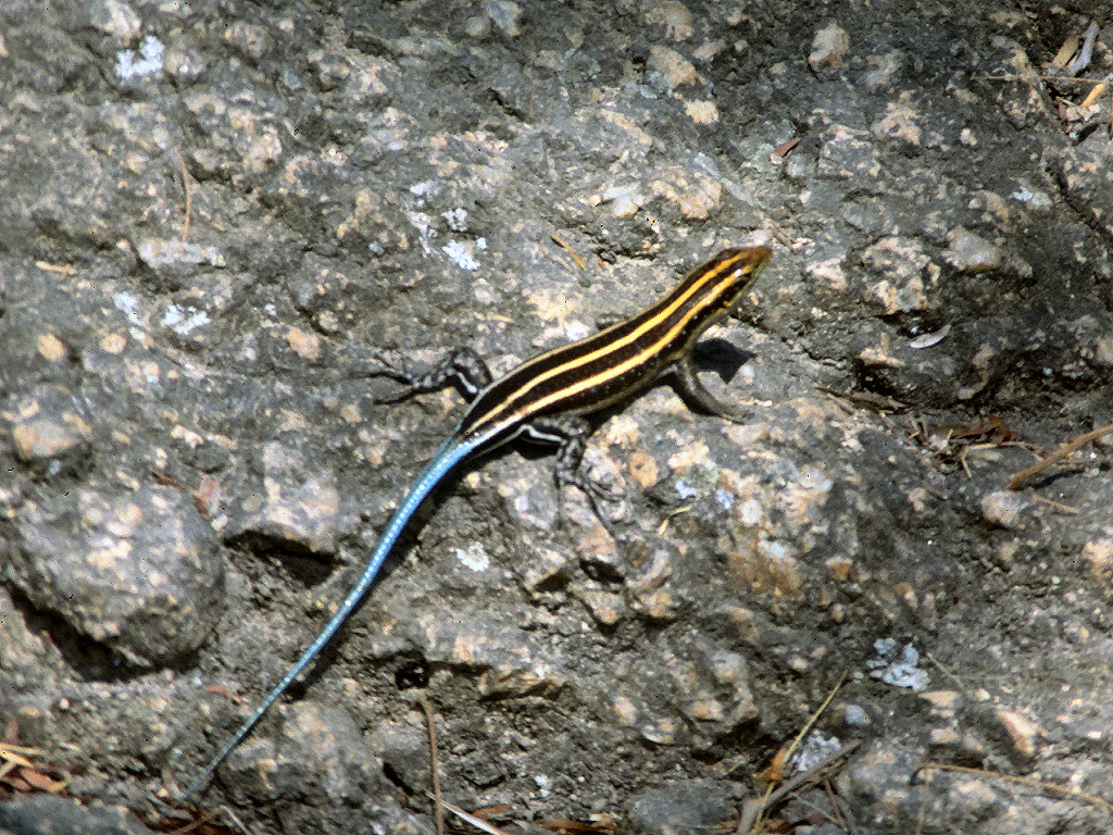 Blue-tailed sandveld lizard. Matopo Hills, Southern Zimbabwe.